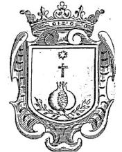 Brothers of Saint John of God emblem or coat of arms, from a printed book, ca. 1610.